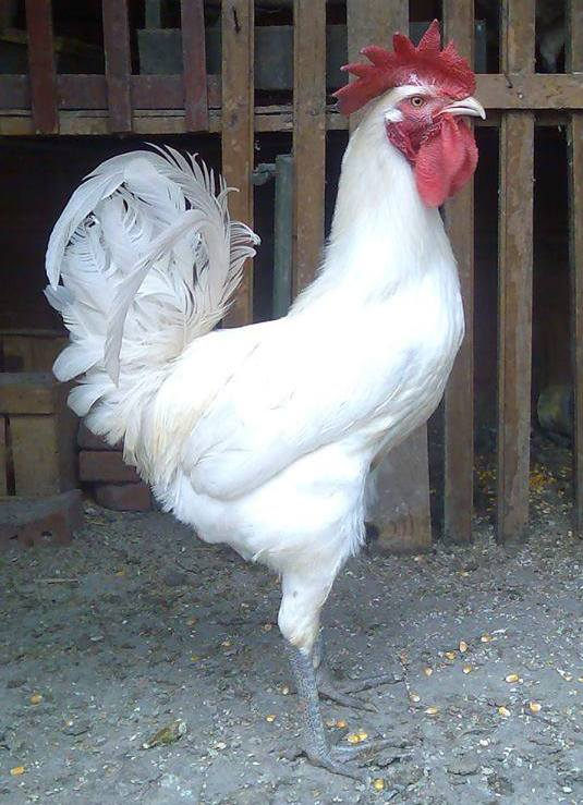 Bosnian Crower Berat rooster.